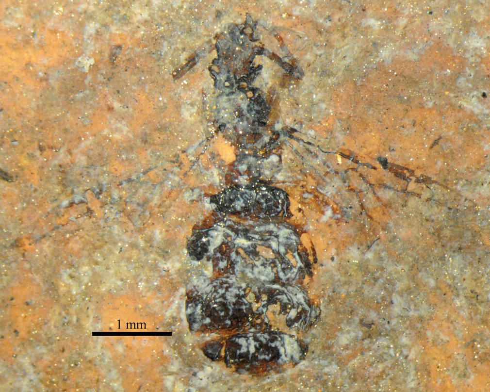 Casaleia eocenica holotype, preserved in dorsal view. Specimen SMFMEI5565